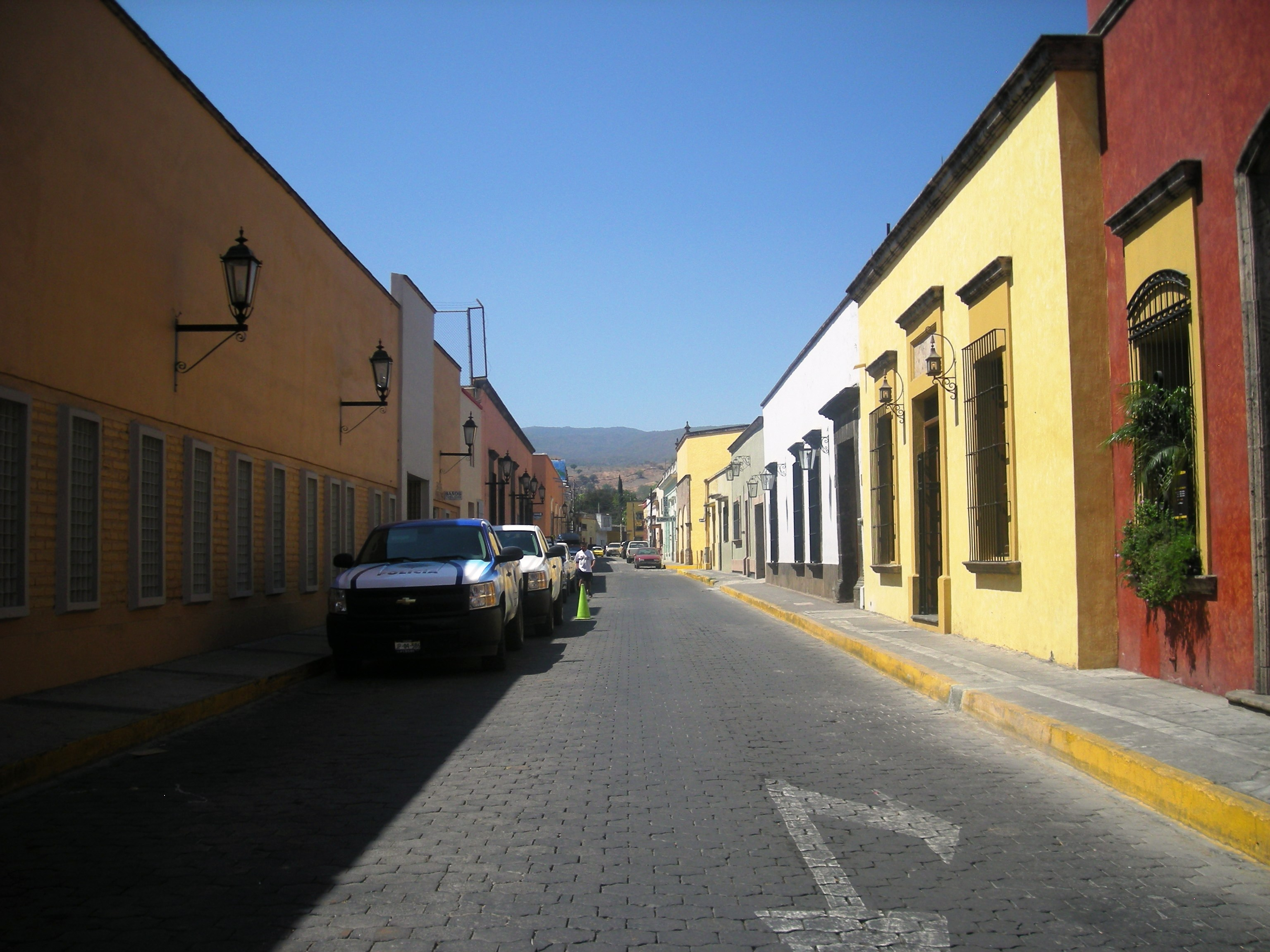 Street in Tequila, Jalisco, Mexico